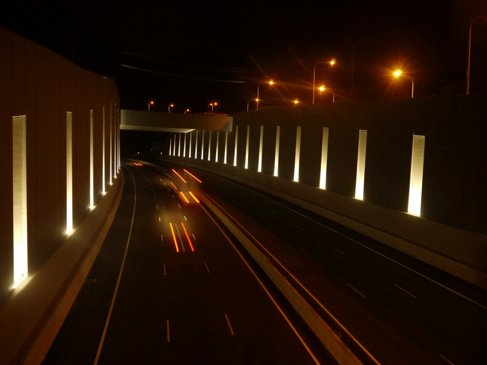 Banora Point Bypass on the Pacific Motorway at Night looking south